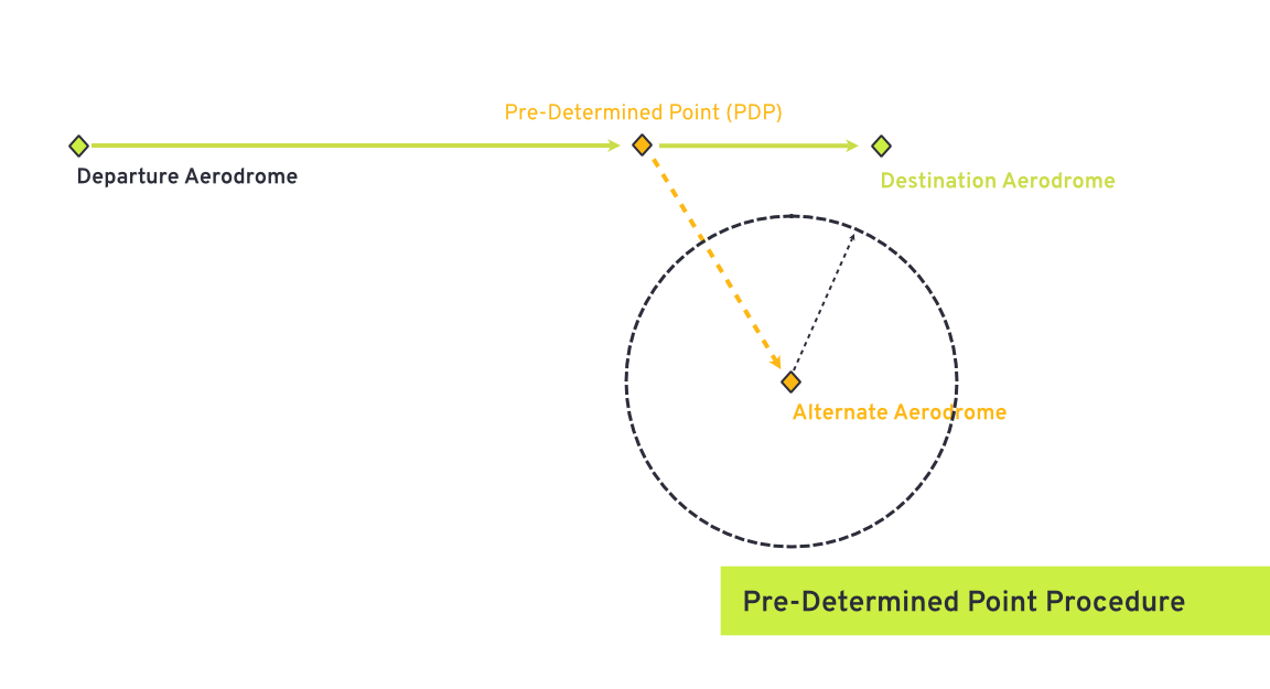 Predetermined Point (PDP) Procedure